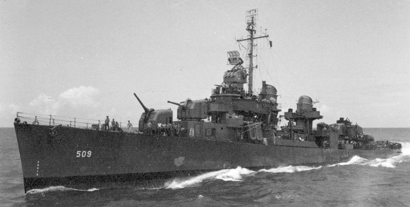 The U.S. Navy destroyer USS Converse (DD-509) viewed from the light cruiser USS Miami (CL-89), 10 June 1944.